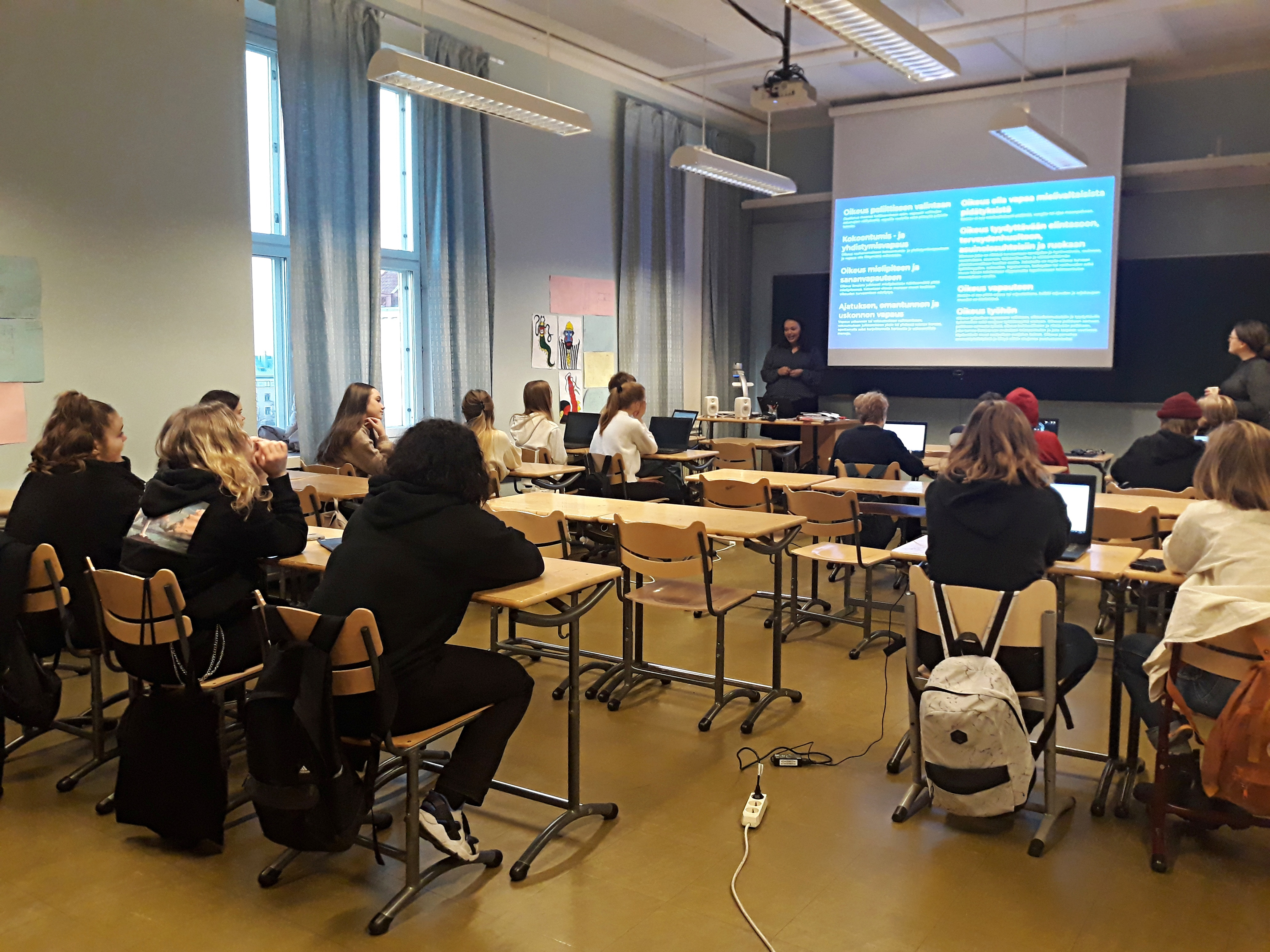 Wikimedia Finland's and the Finnish Red Cross' WikiForHumanRights workshop at Kruununhaka Comprehensive School (upper level)